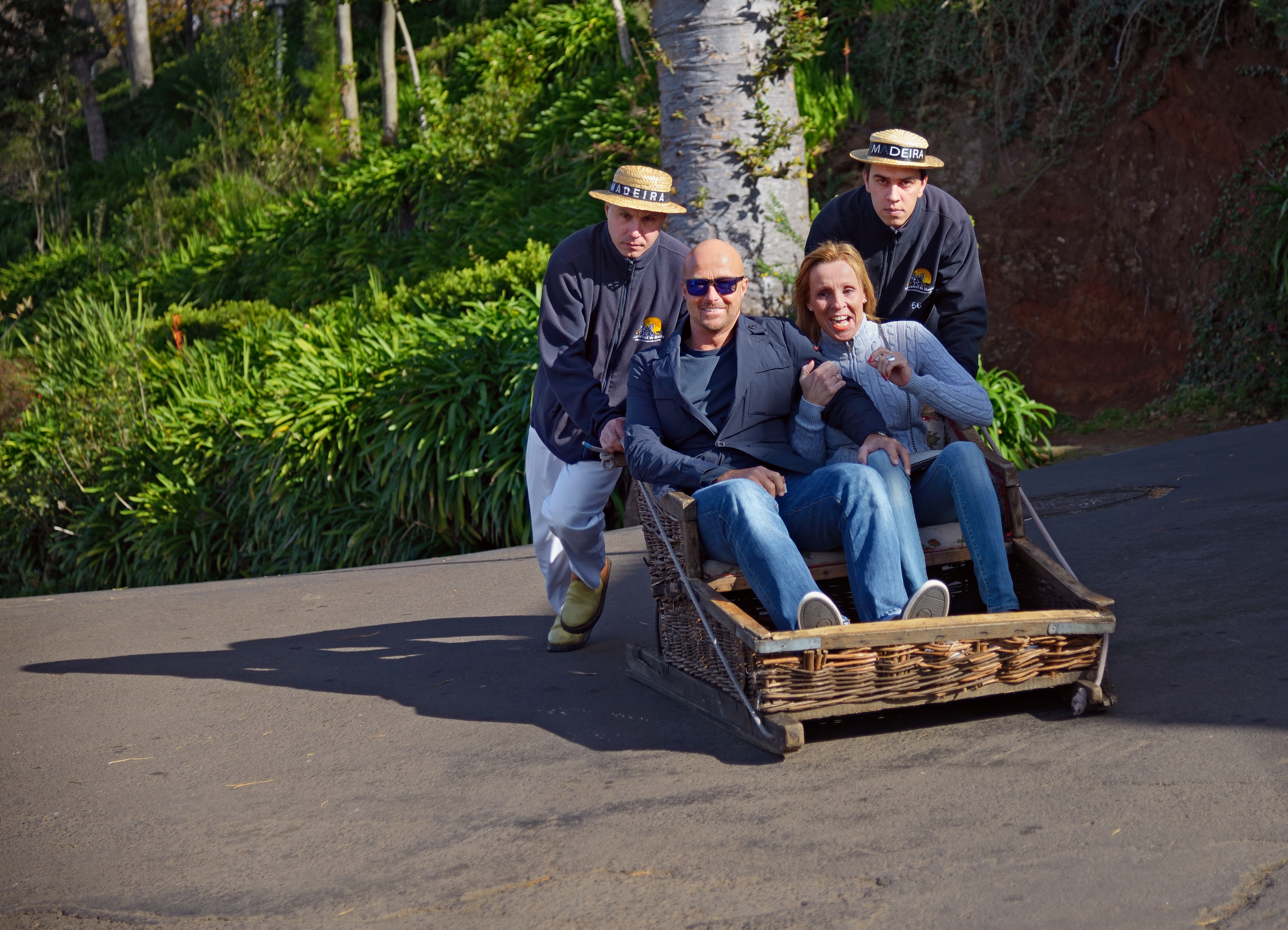 The descent from the mountain on toboggans Monte, Funchal